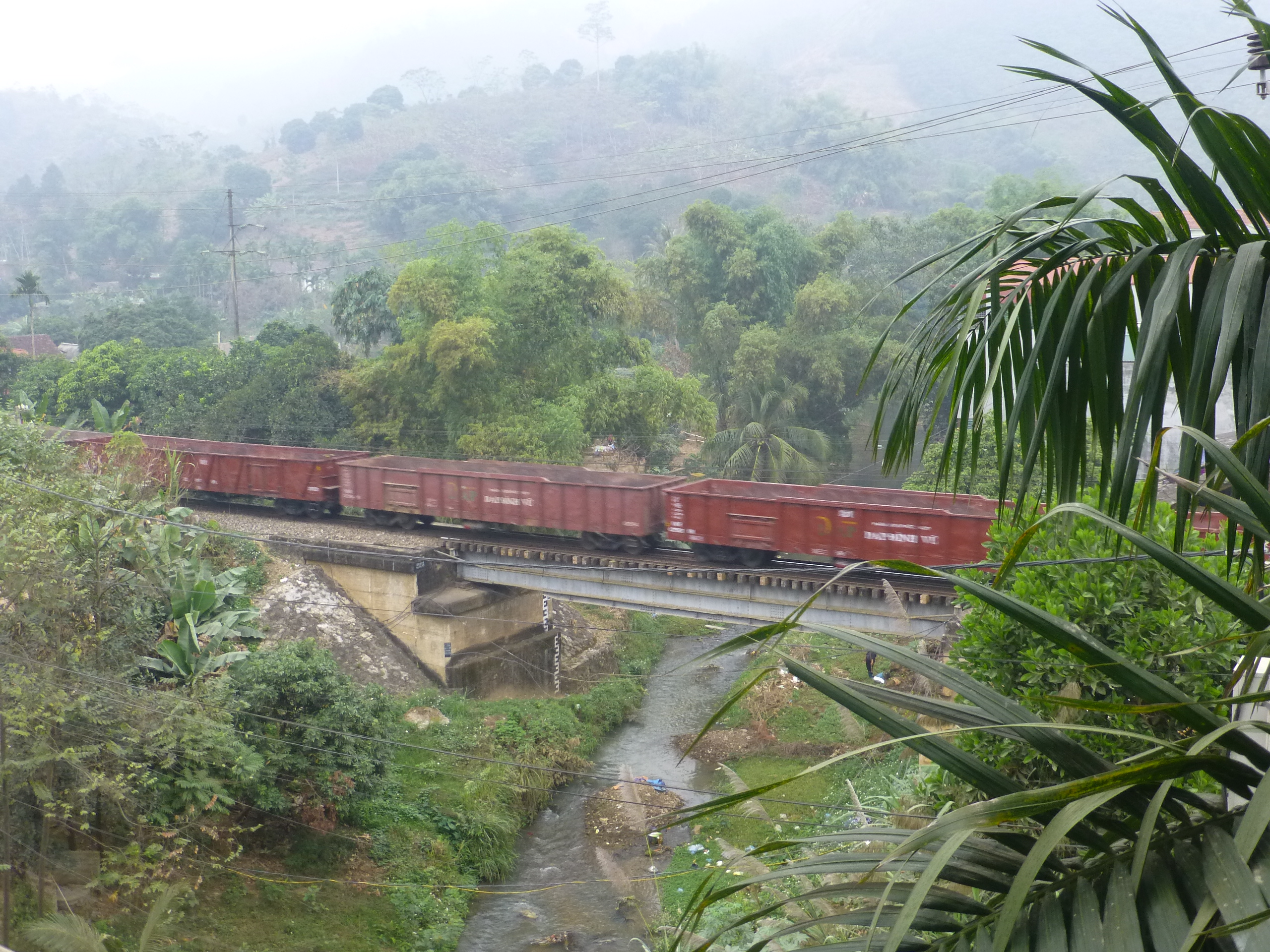 The Hanoi-Lao Cai Railway, seen from a hotel in Bảo Hà, a couple blocks NW of Bảo Hà station. (Bảo Yên District, Lao Cai Province).